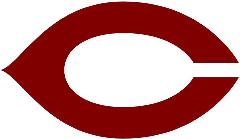 The University of Chicago Athletics logo.